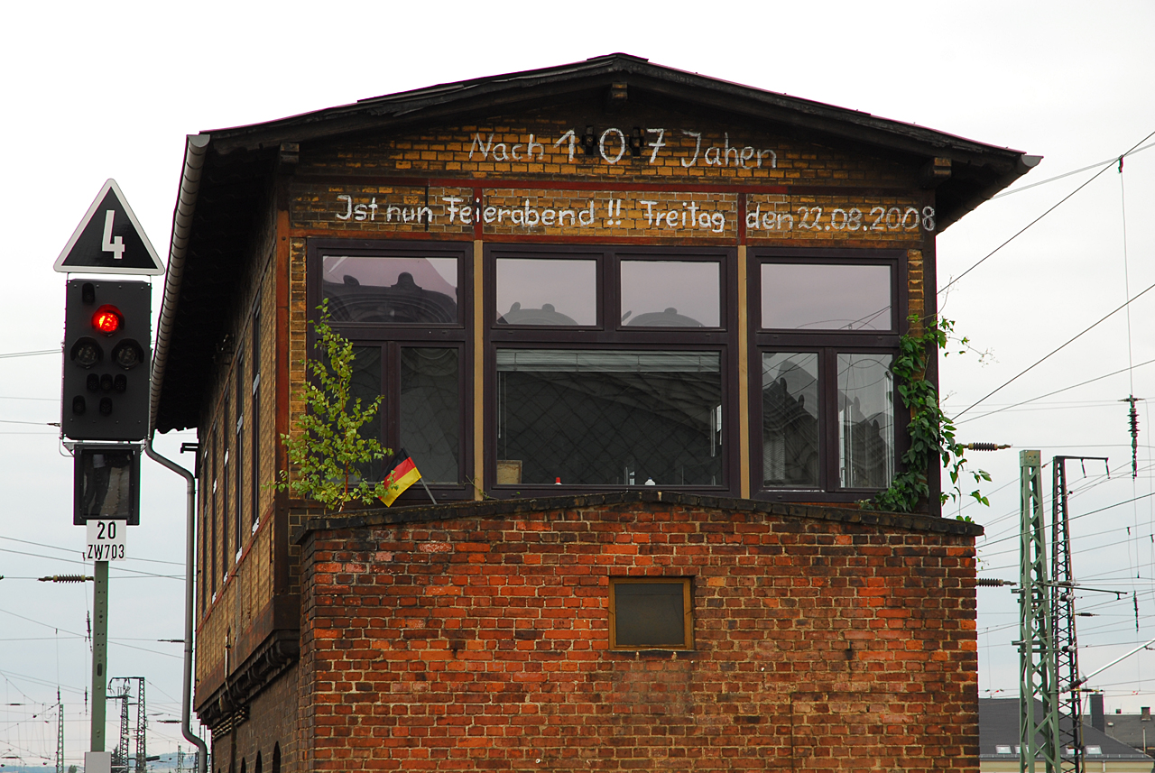 A signal box that hosted one of the lever frames at the Dresden-Neustadt railway station. After 107 years of service, the mechanical system was shut down when a new computer-based interlocking system went into service on August 22nd, 2008. The text says: "After 107 years: It's now quitting time!! Friday, August 22nd, 2008."